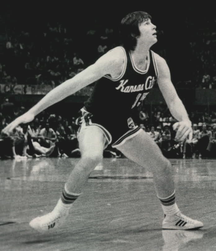 Professional basketball player Scott Wedman